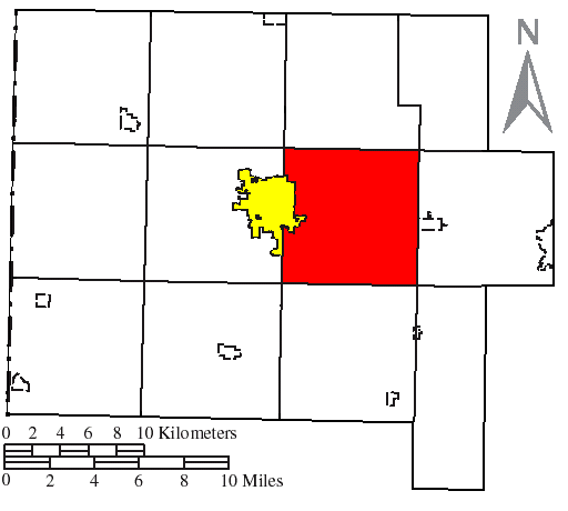 Made by the US Census and modified by myself